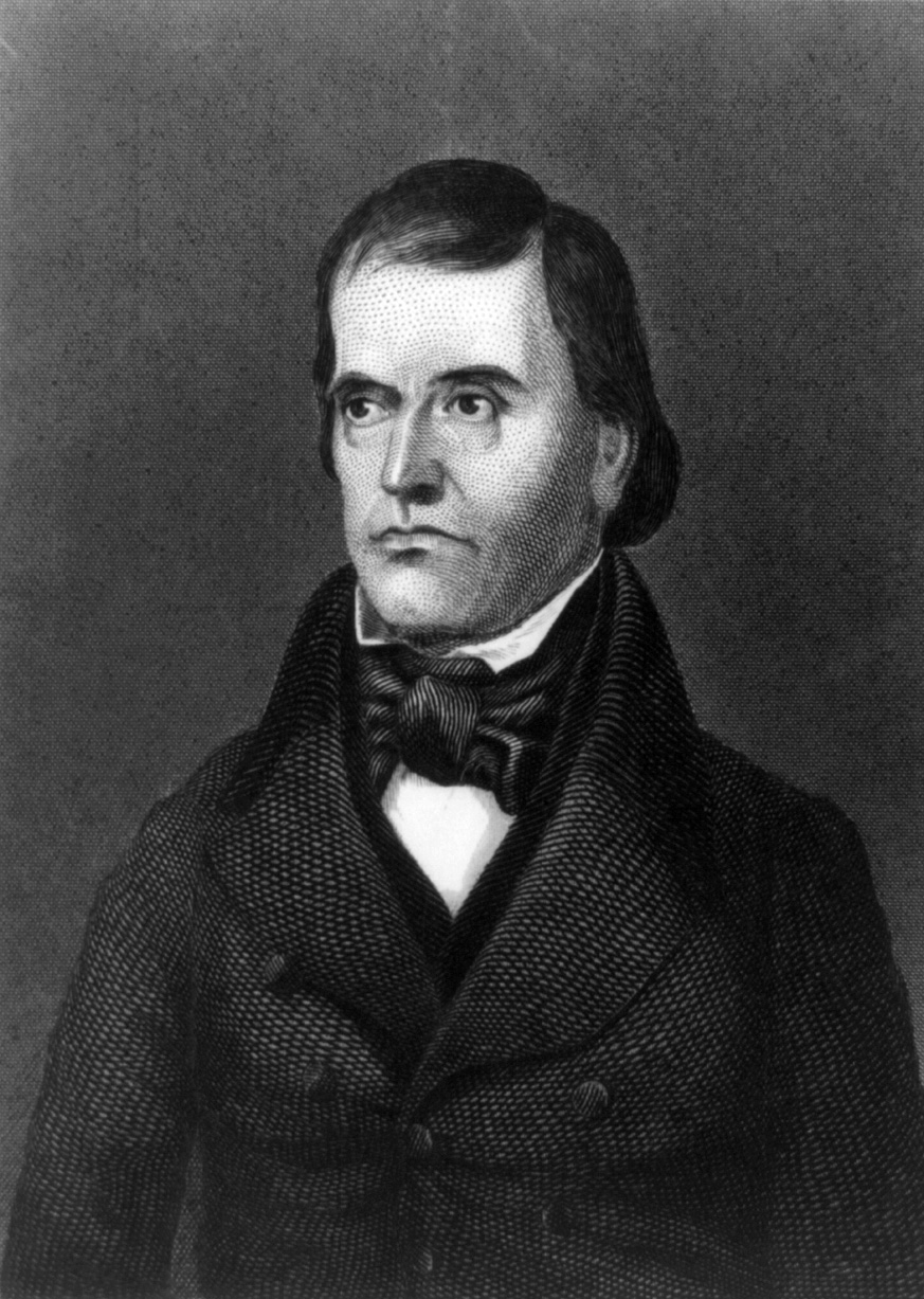 Tilghman Howard, U.S. Congressman from Indiana